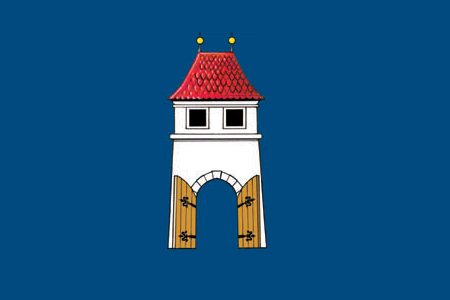 Municipal flag of Fryšták town, Zlín District, Czech Republic.